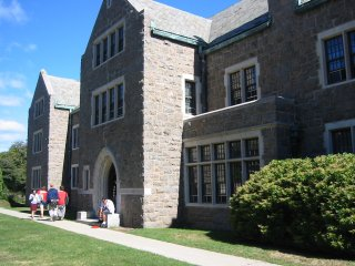 Blackstone House